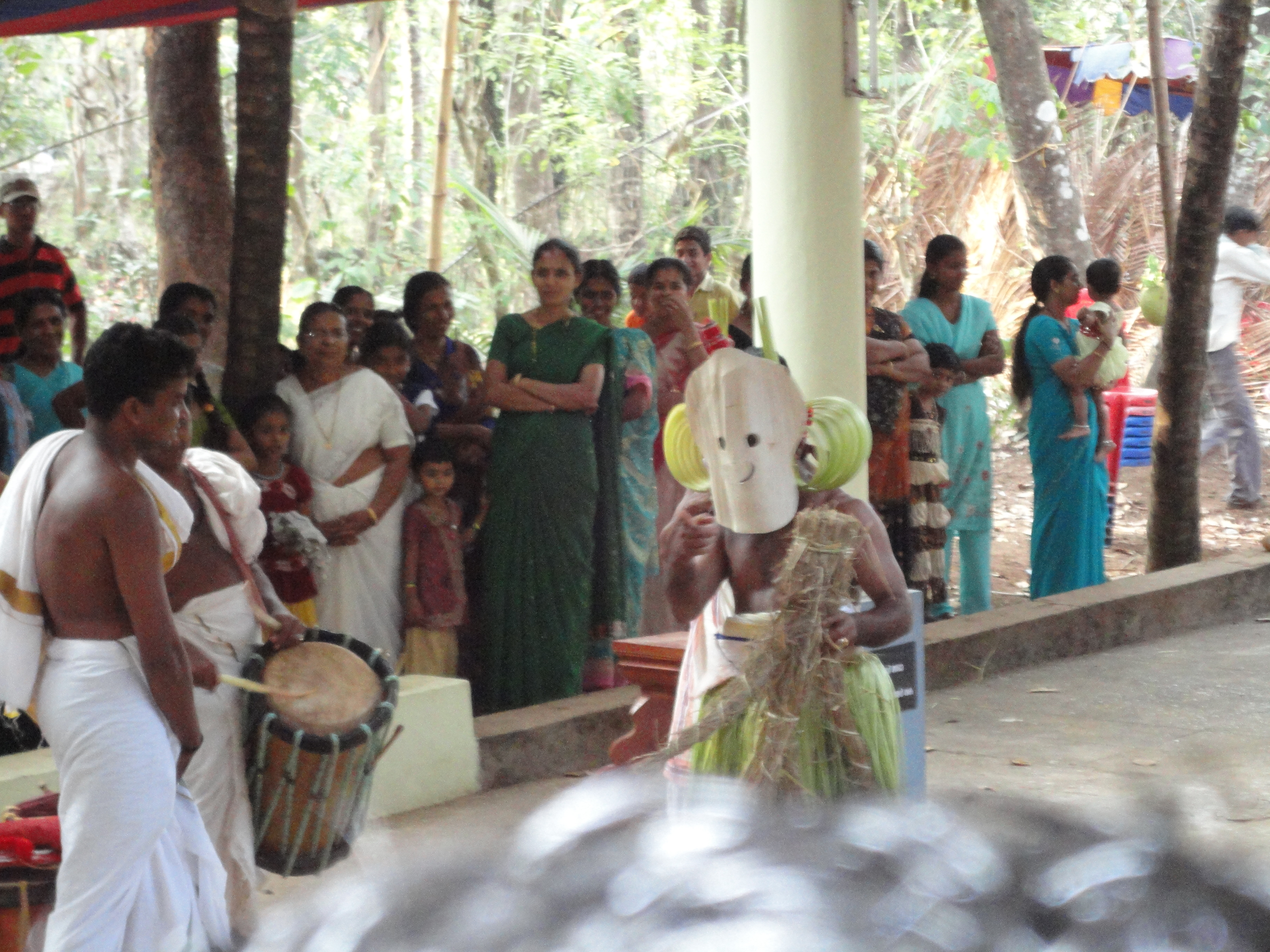 this the pic of guligan theyyam